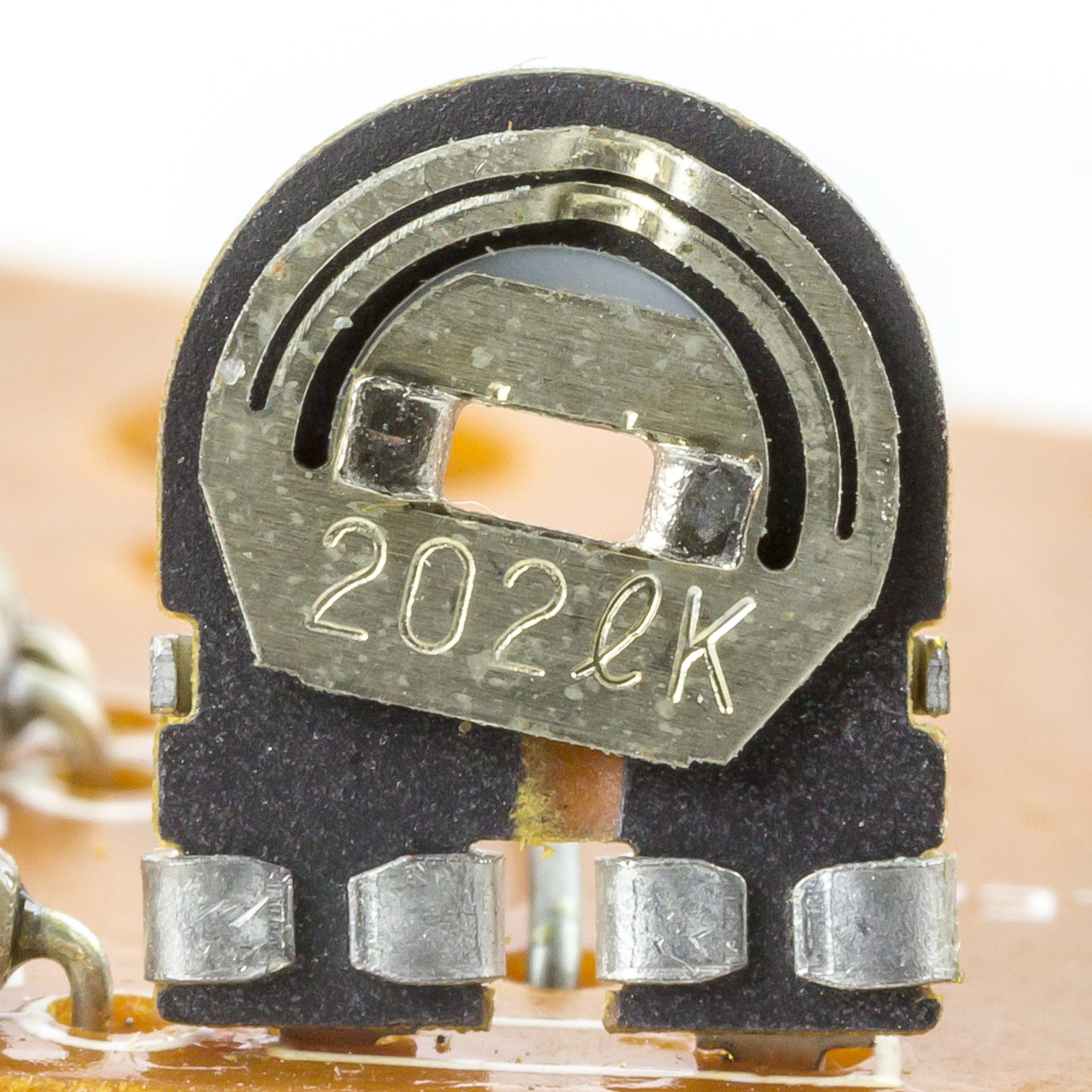 Siemens RC 826 - trimmer pot